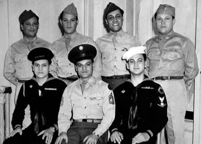 The "fighting Medinas of Rio Grande, Puerto Rico and Brooklyn, New York in World War II Source: Undaunted Courage Mexican American Patriots Of World War II (2005). Latino Advocates for Education, Inc. (Courtesy of Stars and Stripes)